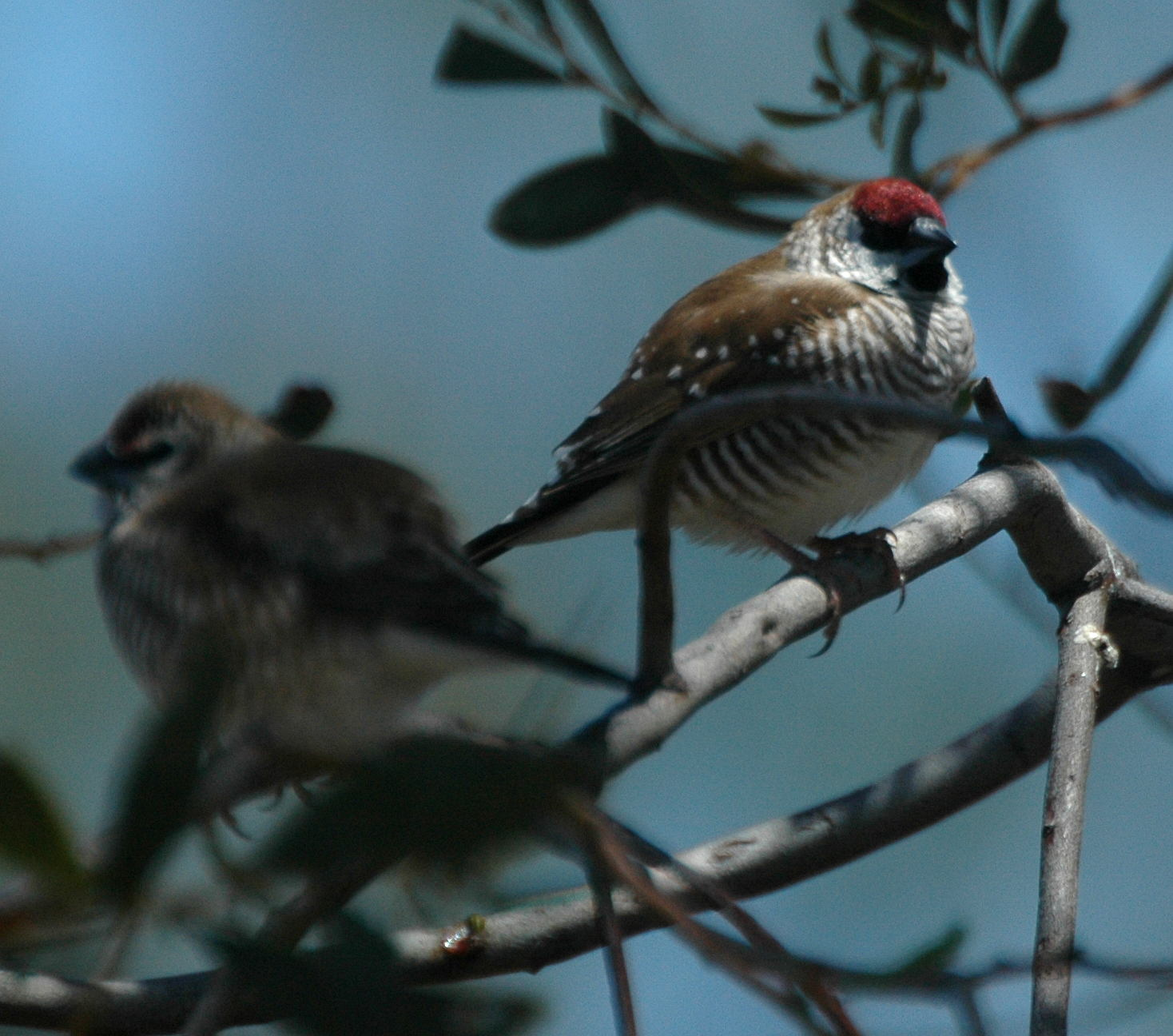 Plum-headed Finch Neochmia modesta Jandowae, S. Queensland, Australia